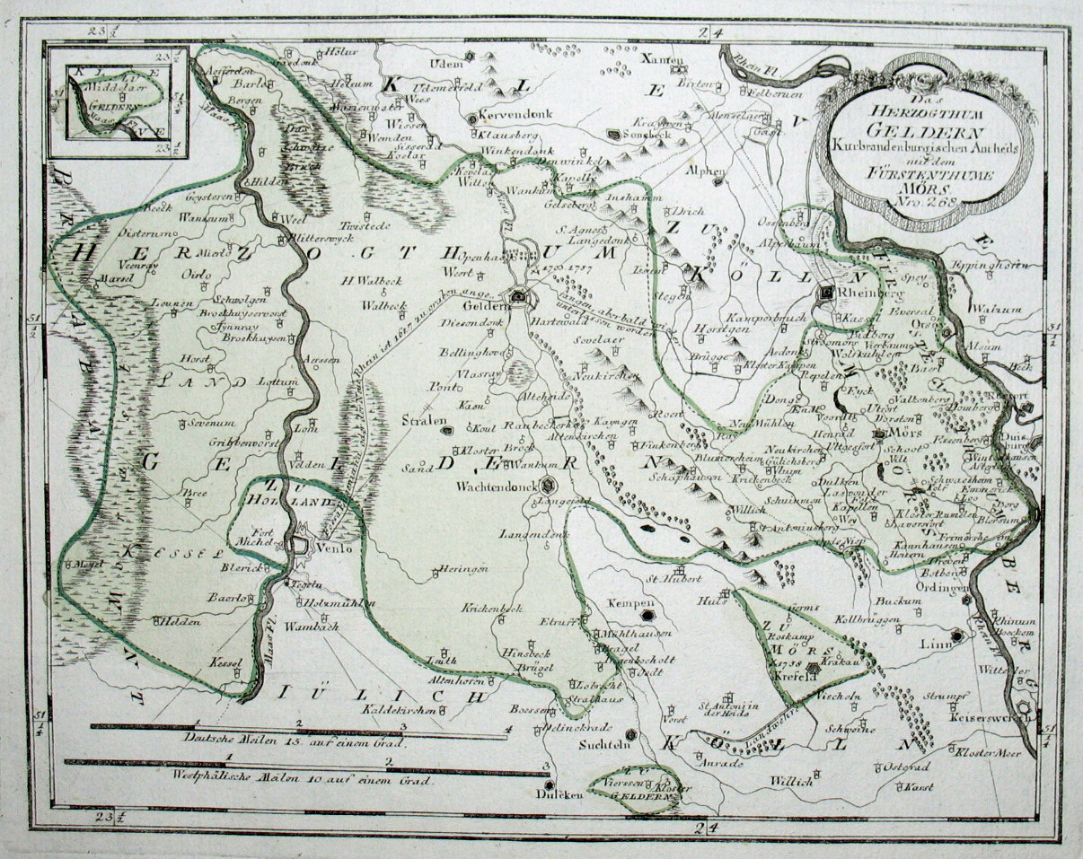 A map of the Duchy of Guelders, a State of the Holy Roman Empire. The Duchy's territory roughly covered parts of the present-day North Rhine-Westphalia in Germany and Limburg province in the Netherlands. Also shown is the Principality of Moers.